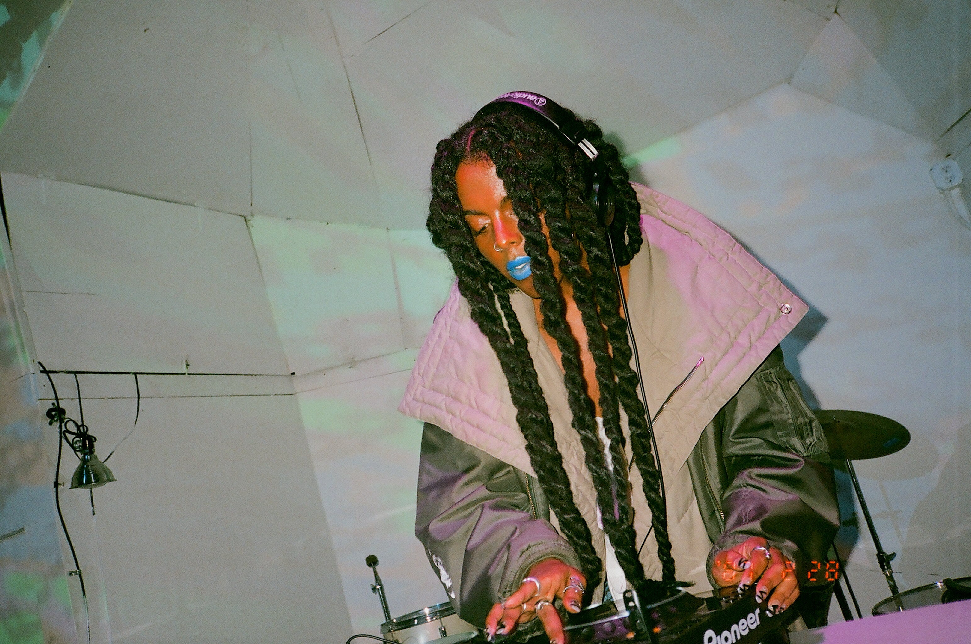 DJing at Secret Project Robot